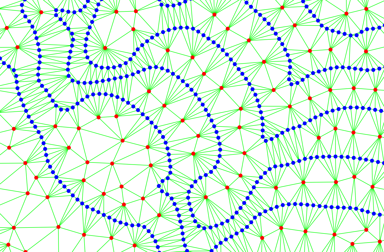 Example of steiner points (in red) inside a triangulation.